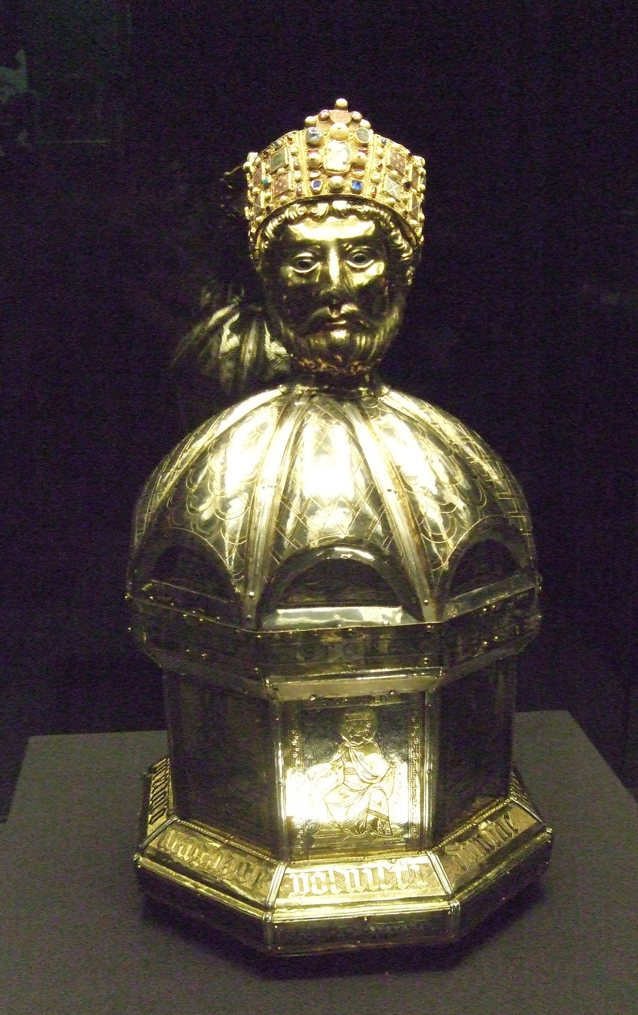 Head reliquary of St. Oswald, Hildesheim about 1185 - 1189, museum of the cathedral of Hildesheim, Germany